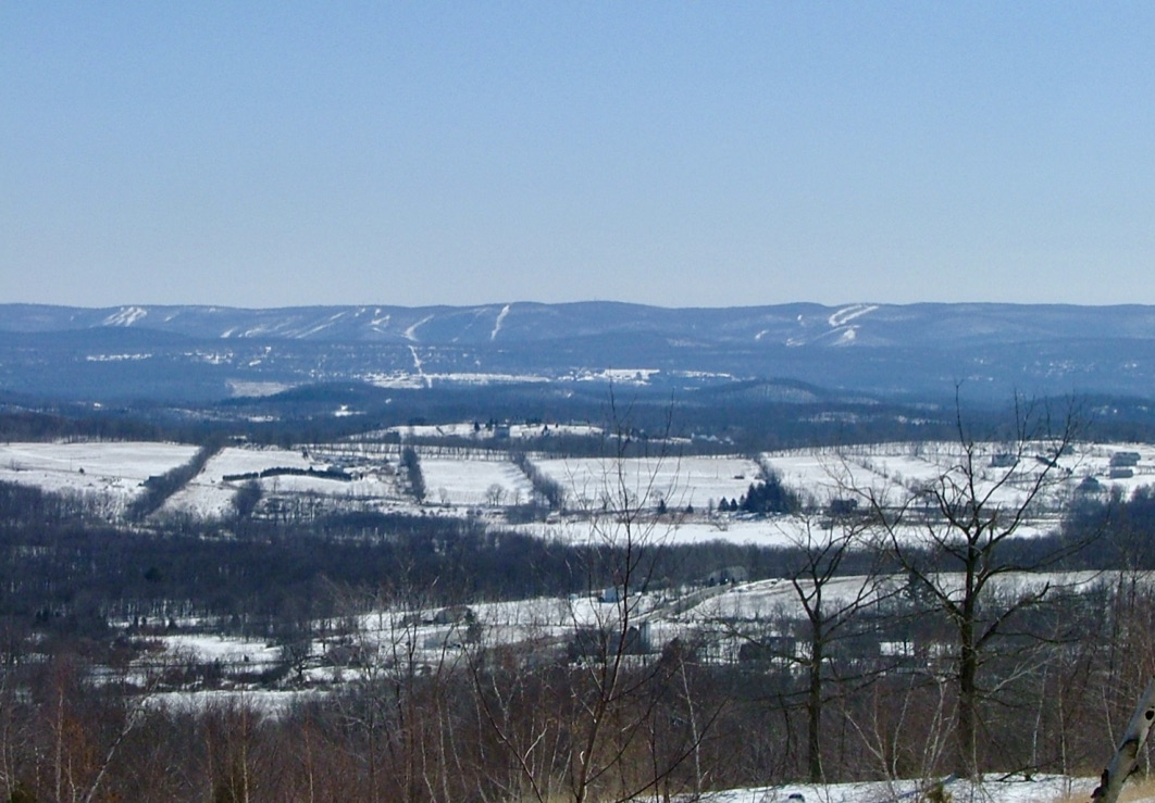 Mountain Creek Ski Area in Vernon, New Jersey, viewed from across the Great Appalachian Valley, on Kittatinny Mountain in Wantage, New Jersey.